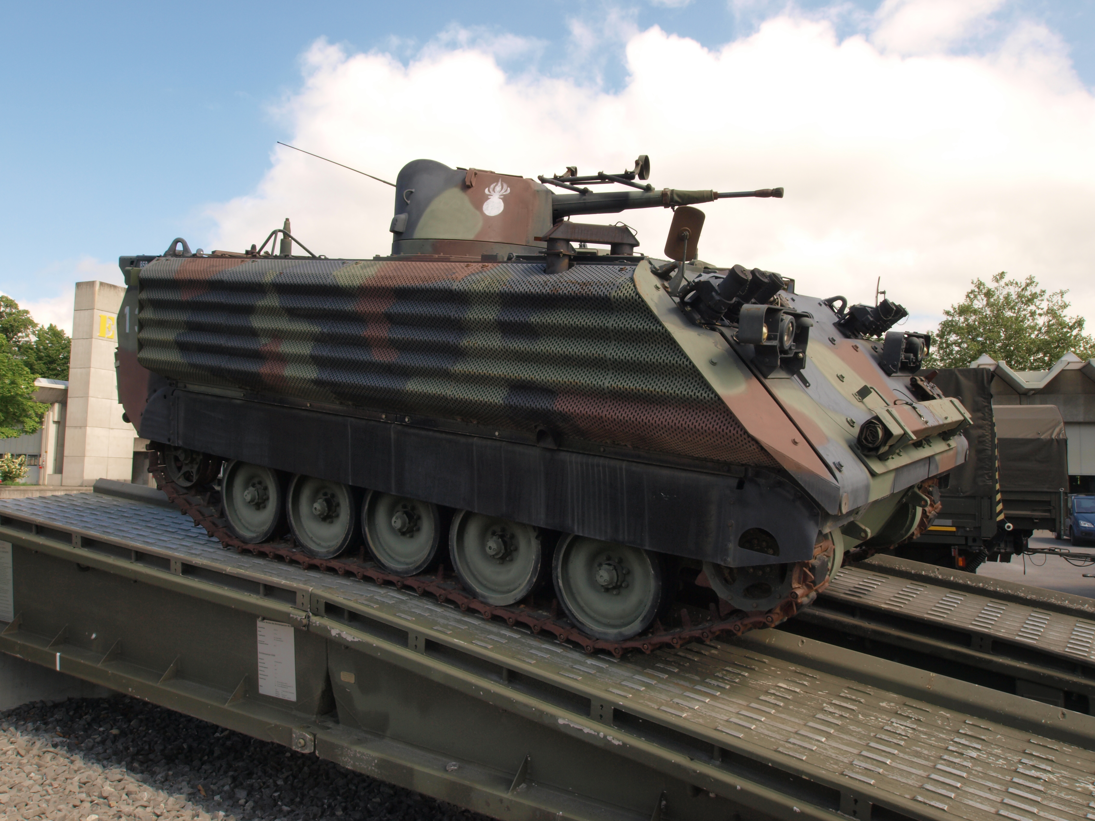 Photographed at the army base Thun, Switserland.